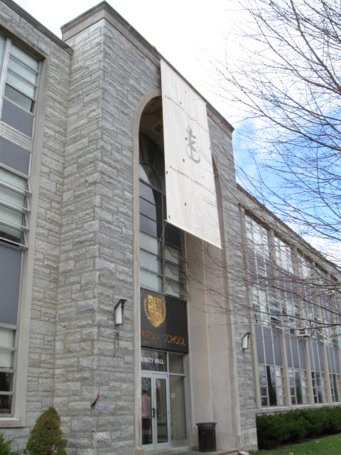 Delbarton's Trinity Hall, opened in 1959. Non-contributing building #90-P of the Washington Valley Historic District in Mendham Township, New Jersey.